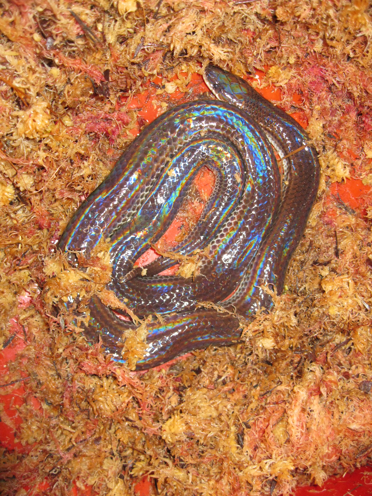 Xenopeltis unicolor, adult male